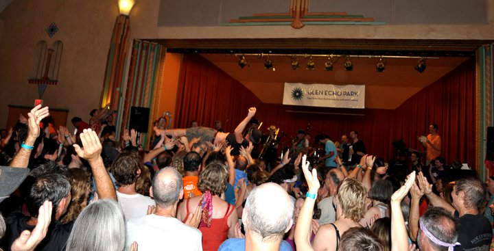 Contrastock (a word play on Woodstock) is an annual 12 hour contradance event sponsored by the Folklore Society of Greater Washington DC, and held at Glen Echo National Park, Glen Echo, Md. At the culmination of the 2011 event, dance caller Nils Fredland whipped the crowd into a frenzy, beckoned them up to the stage, and dove into the spontaneous "mosh pit". A video from the stage perspective is posted on YouTube